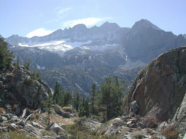 Middle Palisade, as seen from Lone Pine Creek drainage, Sierra Nevada, USA